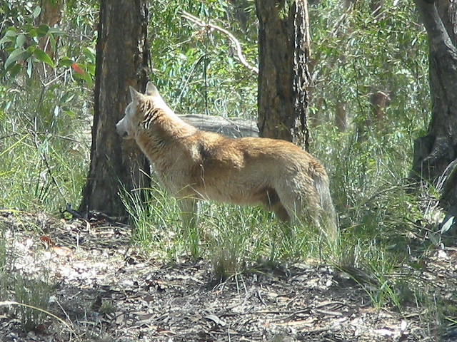 Dingo (perhaps hybrid) in the Greater Blue Mountains area, at Laguna in the Wollombi valley to the east of Yengo National Park